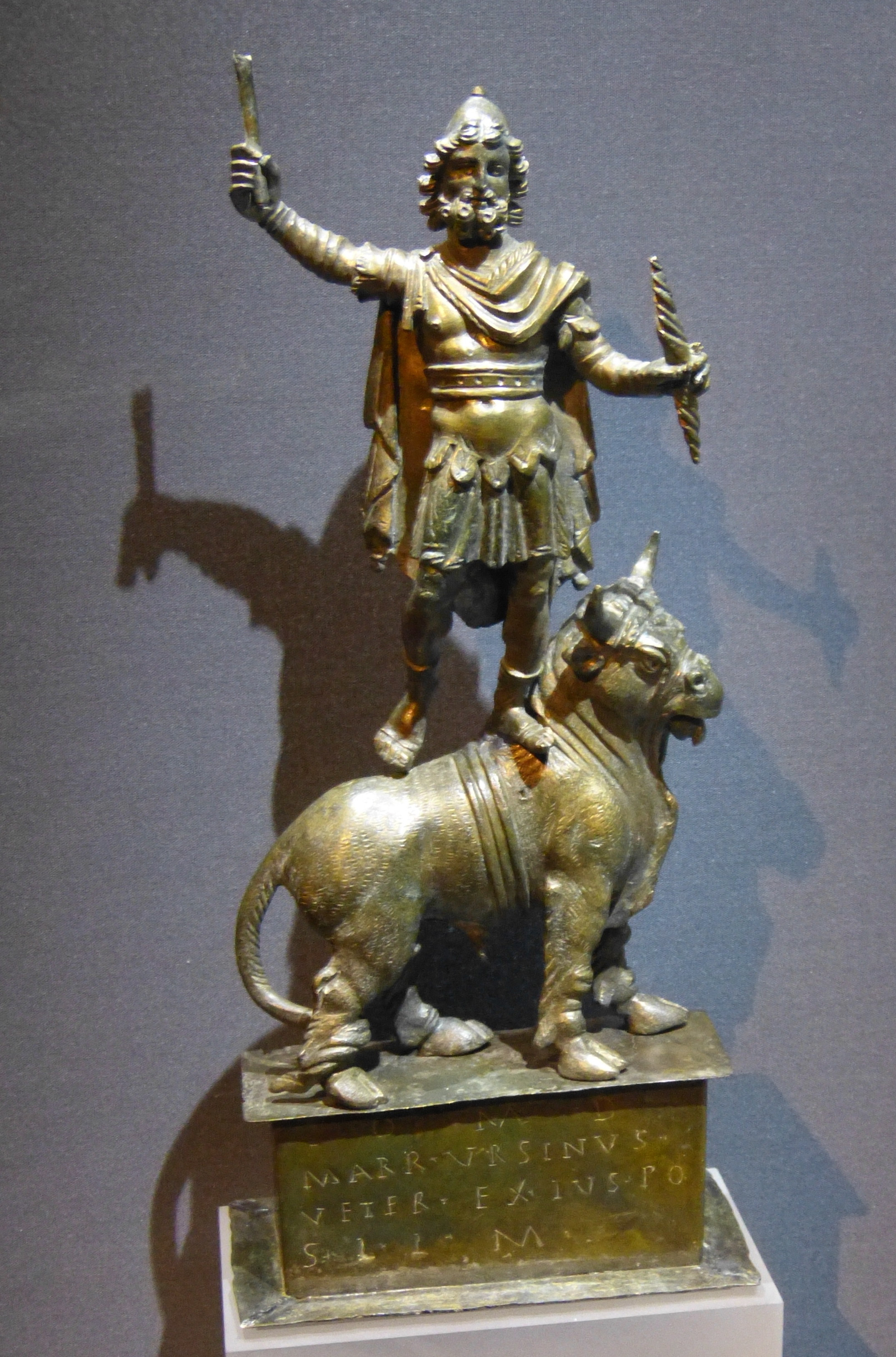 Vienna ( Austria ). Kunsthistorisches Museum: Iupiter Dolichenus hoard ( 2nd/3rd century AD ) from Mauer an der Url - Statue of: Iupiter Dolichenus standing on a bull, dedicated by the veteran soldier Marrius Ursinus.